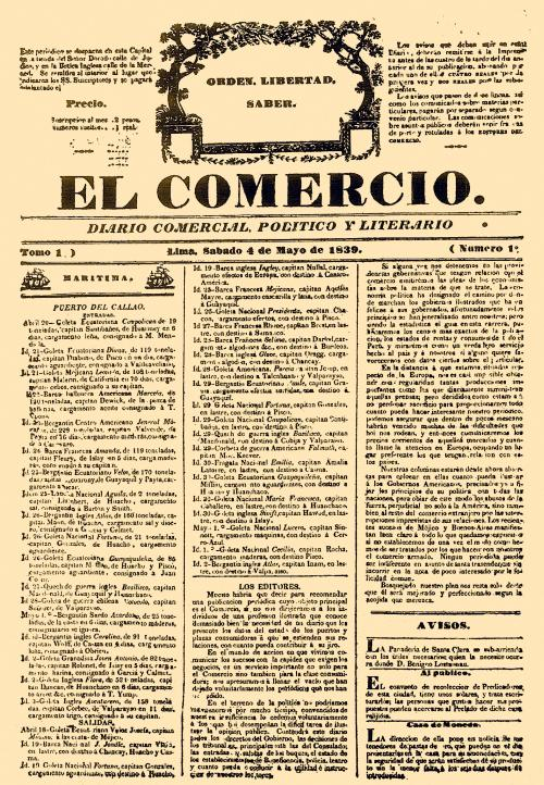 First Issue of El Comercio, the most read daily in Peru